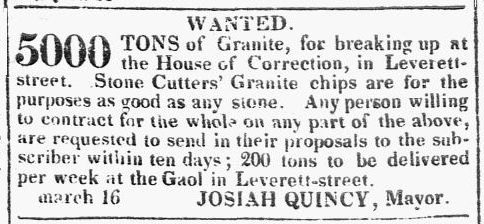 Newspaper item about Leverett St. Jail, Boston